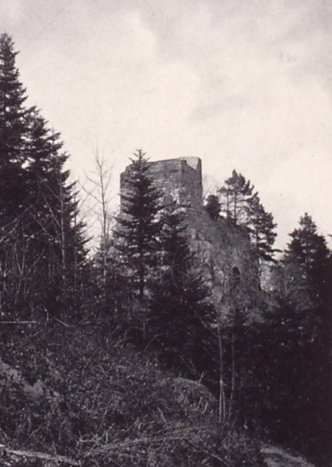 The Château de Bilstein nearby Riquewihr, Alsace